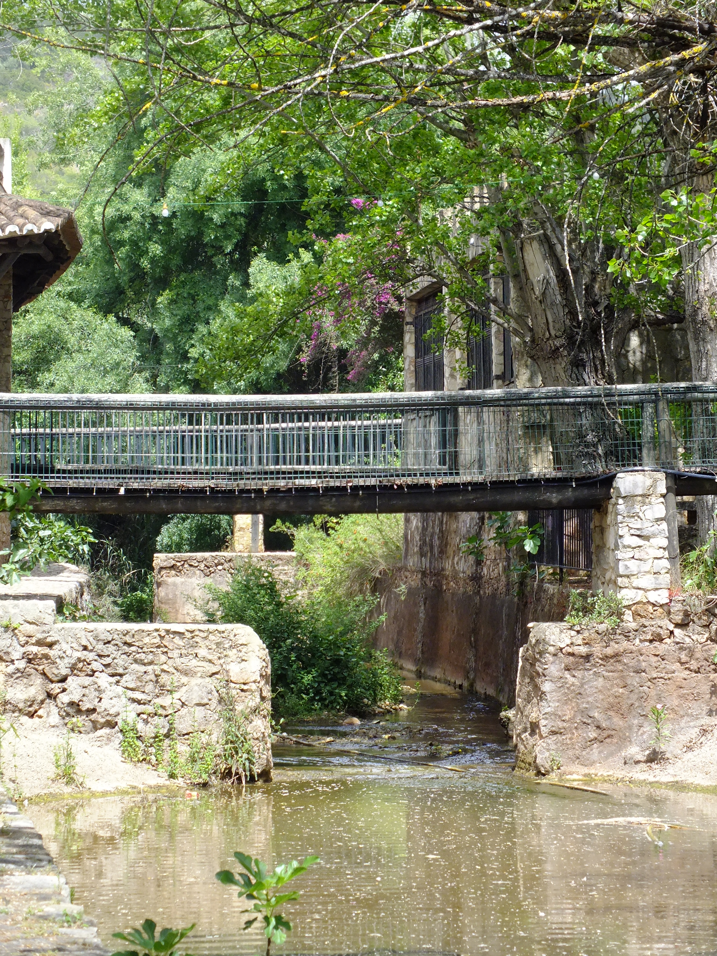 A small footbridge across the Alte river located between the Fonte Pequena and Fonte Grande (Small spring and Big Spring), at the eastern end of the village of Alte near Albufeira, Algarve, Portugal.